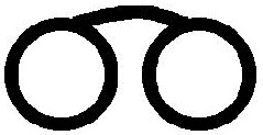 The spectacles, a centuries-old symbol of the city of Oudenaarde, as used in its logo and extended escucheon.